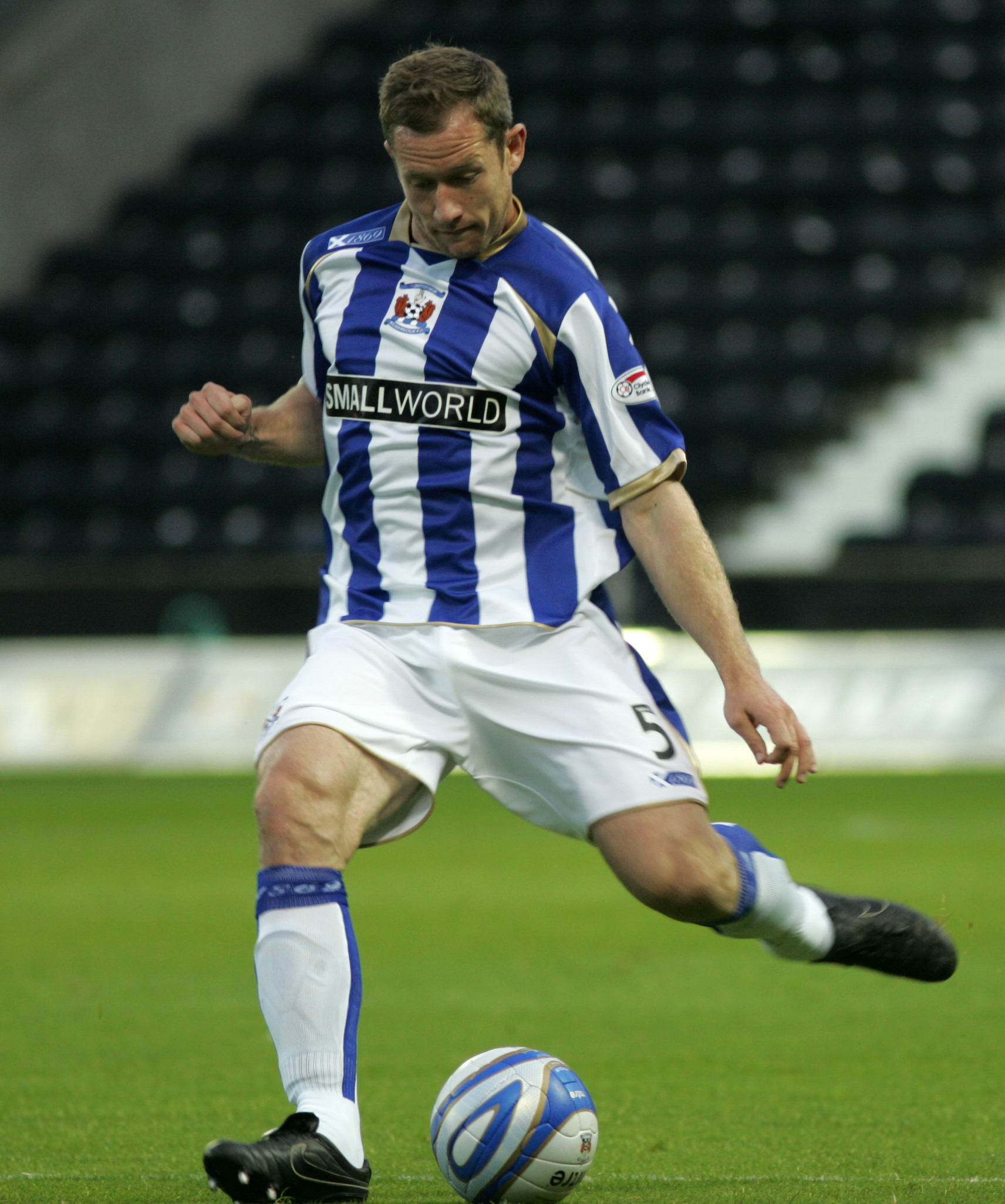 Kilmarnock F.C. player Frazer Wright